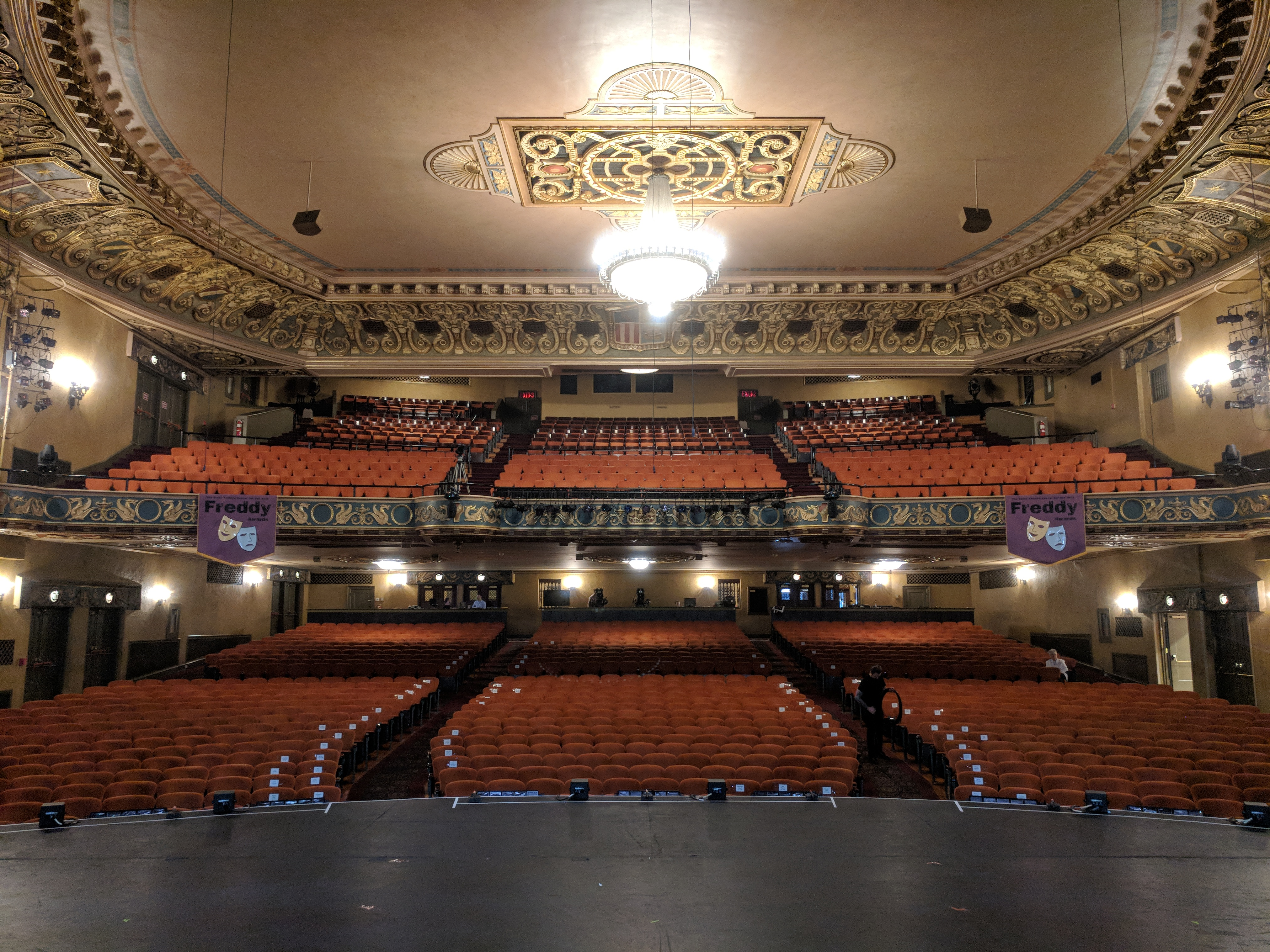 A view of the interior of the State Theater in Easton, Pennsylvania, looking from the stage out to the audience.